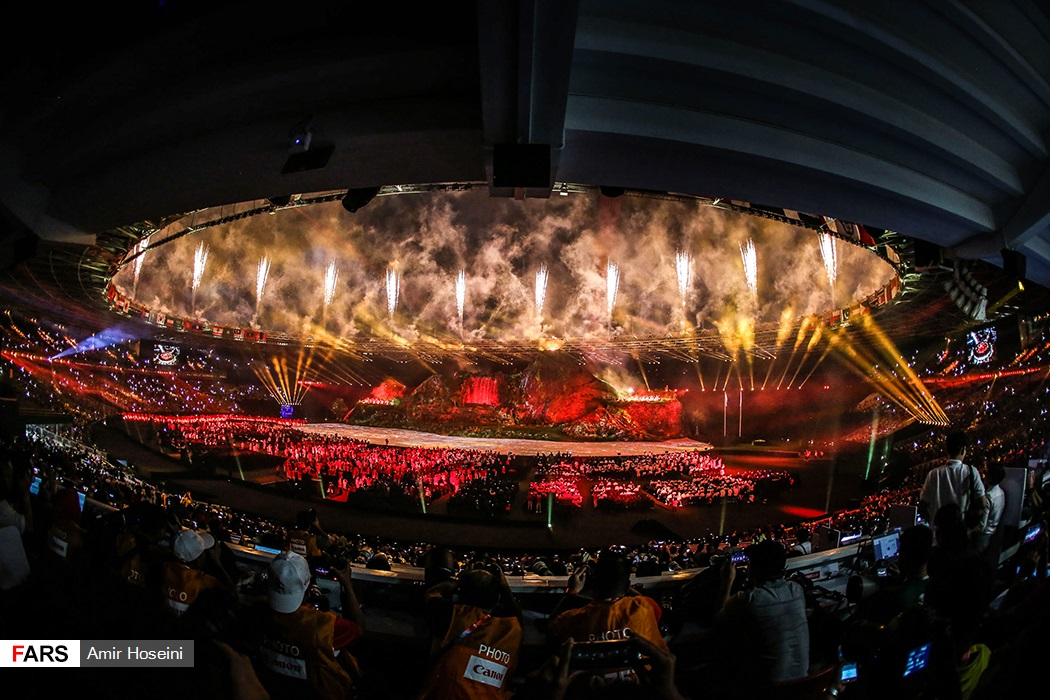 2018 Asian Games opening ceremony